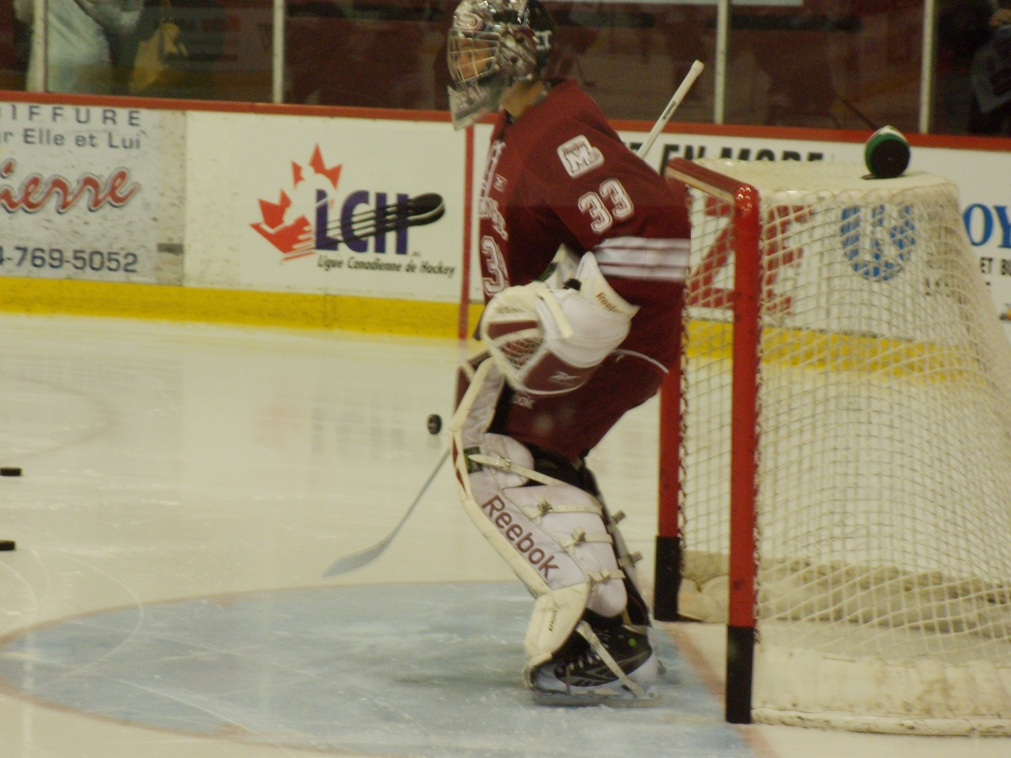 Étienne Marcoux with Montréal Junior